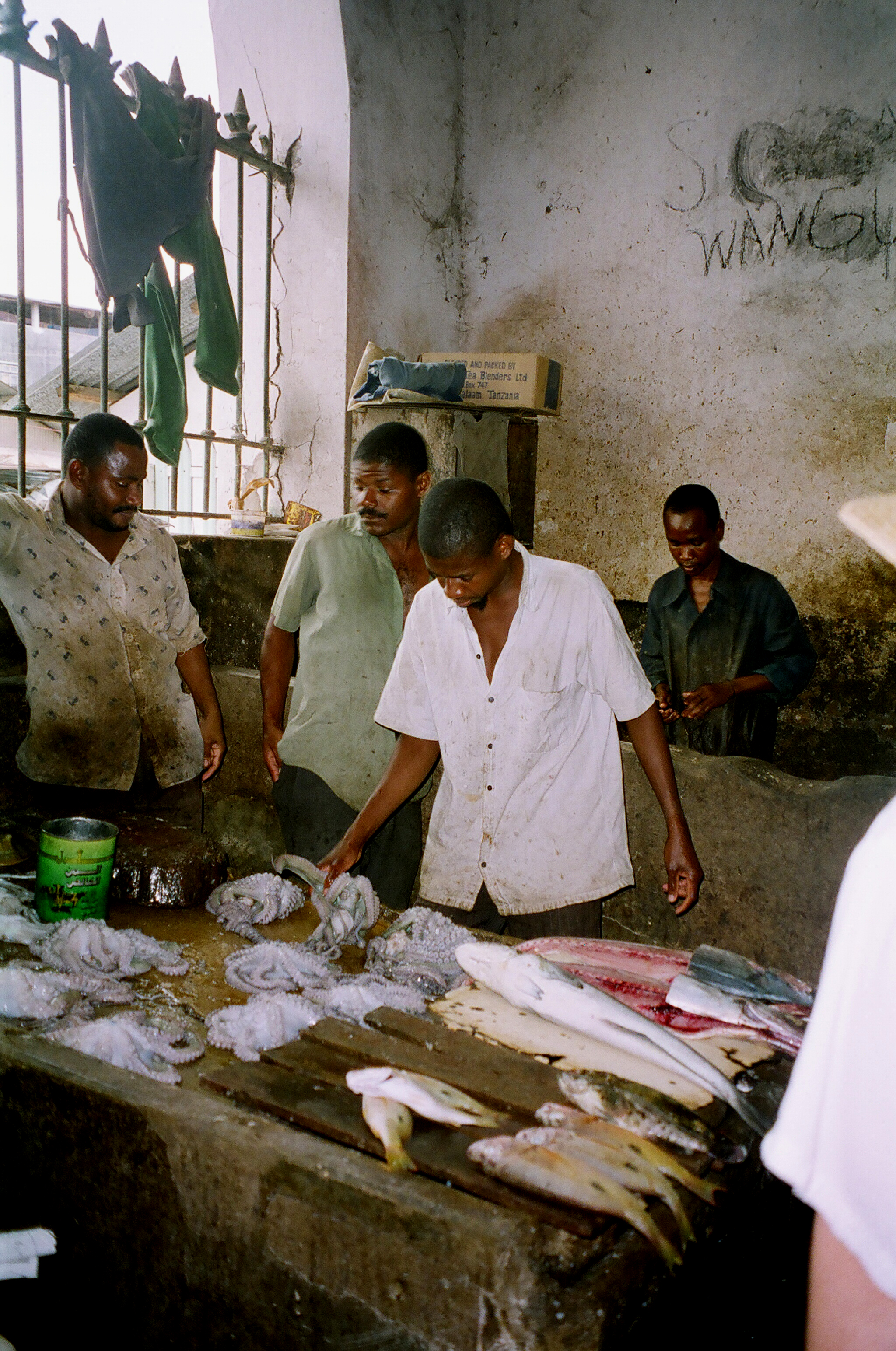 Men selling fish and octopus at a market in Zanzibar